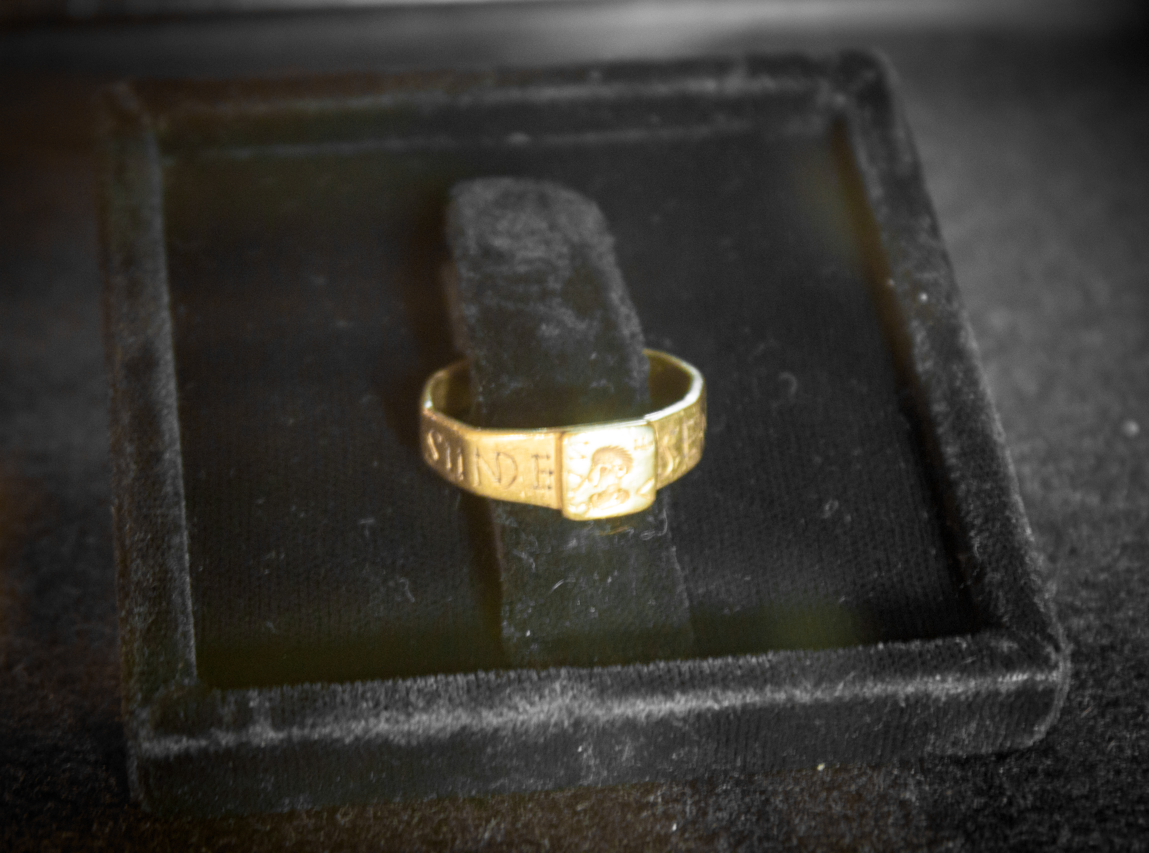 Possible ring that inspired Tolkien for Lord of the Rings